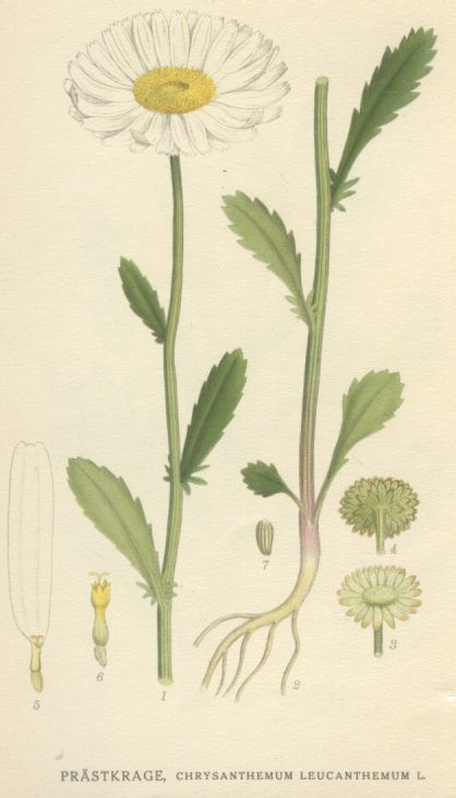 Chrysanthemum leucanthemum